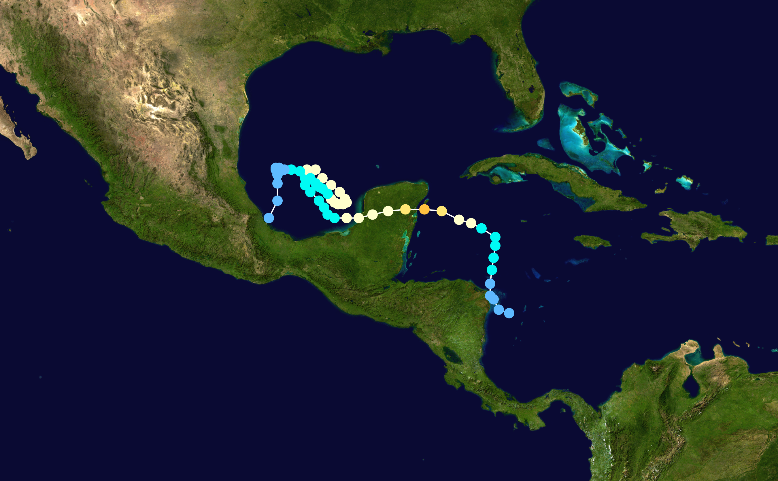 Track map of Hurricane Roxanne of the 1995 Atlantic hurricane season. The points show the location of the storm at 6-hour intervals. The colour represents the storm's maximum sustained wind speeds as classified in the Saffir–Simpson scale (see below), and the shape of the data points represent the nature of the storm, according to the legend below. Saffir–Simpson scale Tropical depression≤38 mph≤62 km/h Category 3111–129 mph178–208 km/h Tropical storm39–73 mph63–118 km/h Category 4130–156 mph209–251 km/h Category 174–95 mph119–153 km/h Category 5≥157 mph≥252 km/h Category 296–110 mph154–177 km/h Unknown Storm type Tropical cyclone Subtropical cyclone Extratropical cyclone / Remnant low / Tropical disturbance / Monsoon depression